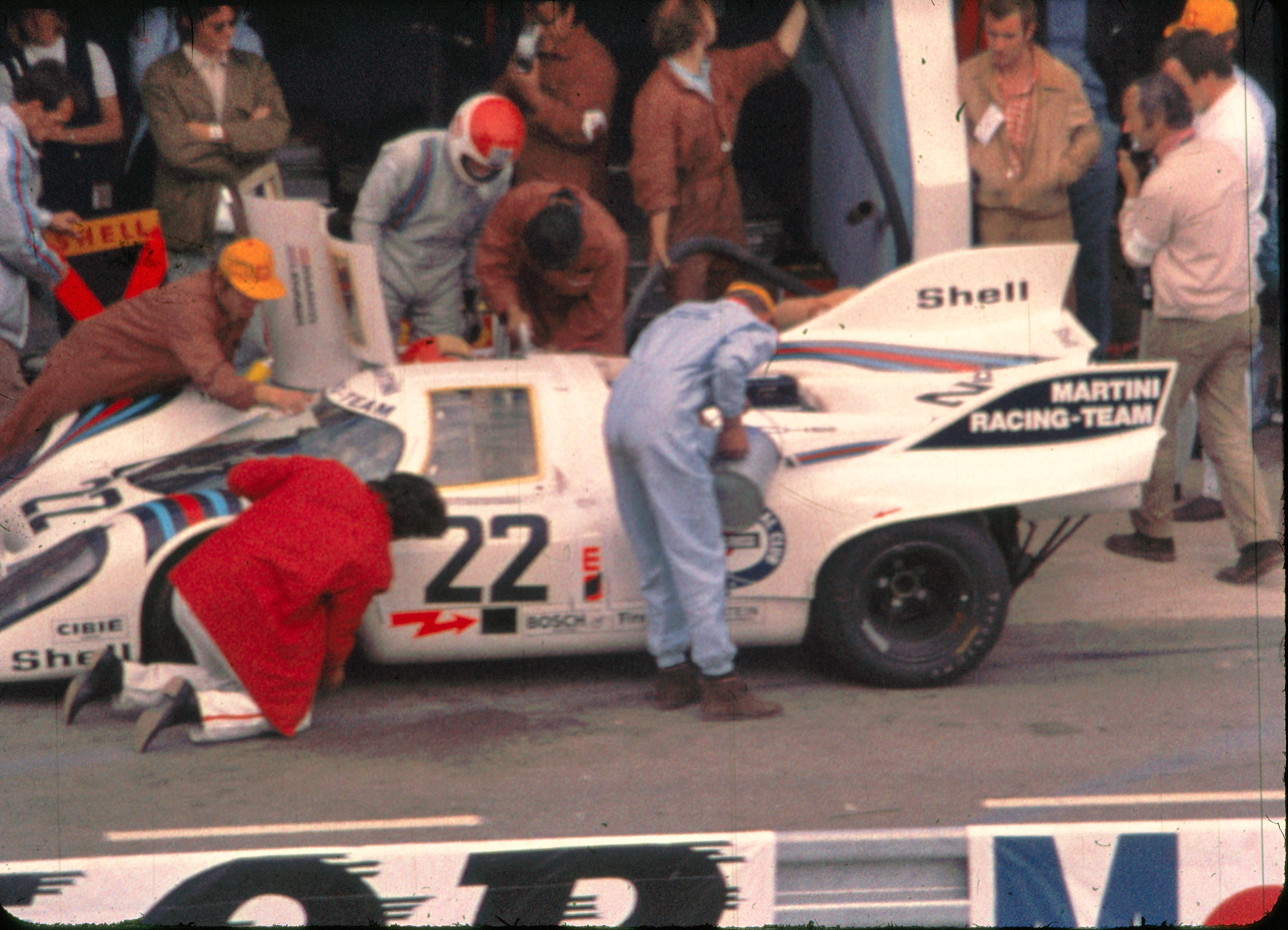 Porsche 917 K N°22 Martini Internatinal Racing Team Technique : Catégorie : Sport Moteur : F12 Porsche 4907 cm3 Pneus : Firestone Pilotes : Helmut Marko Gijs Van Lennep Résultats : Course : 1er Distance : 5335,000 km Moyenne : 222,29 km/h